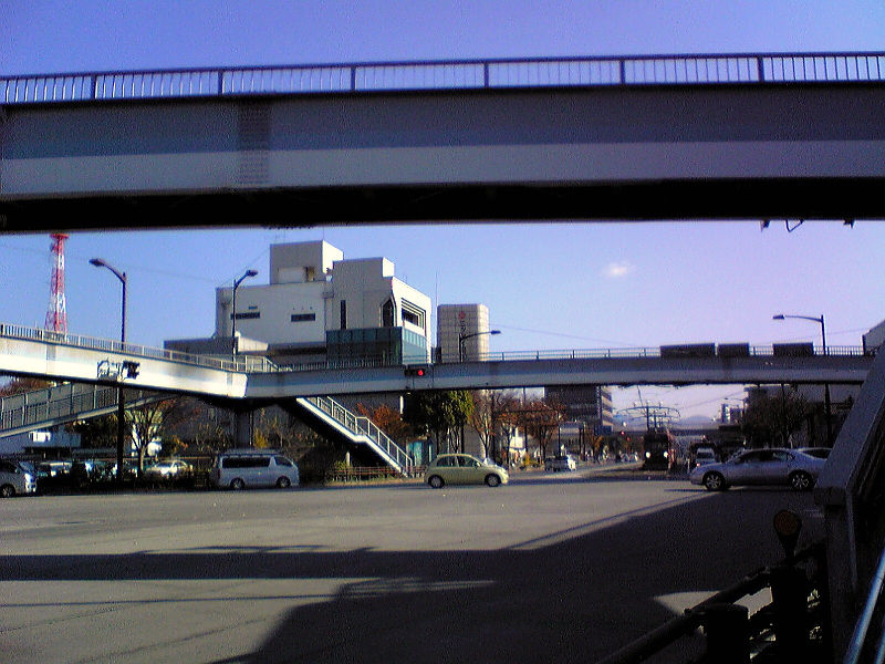 愛知県豊橋市西八町交差点（南西側より撮影） Toyohashi,Aichi,Japan/Nishihacho intersection